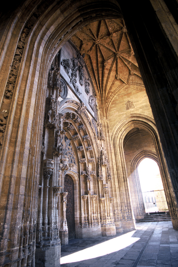 Ref.0006-Catedral.Oviedo